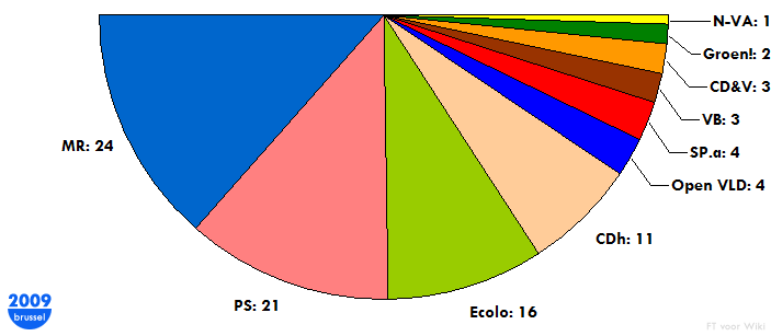 Seat division of the Parliament of the Brussels-Capital Region in 2009